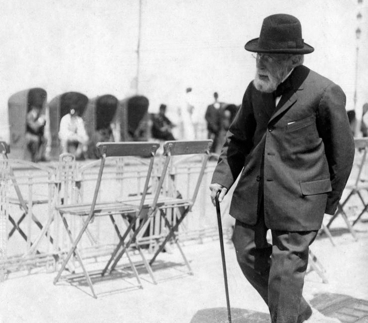 The Dutch painter Jozef Israëls walking on the beach (Scheveningen) shortly before his death, Netherlands, Scheveningen, 1911.